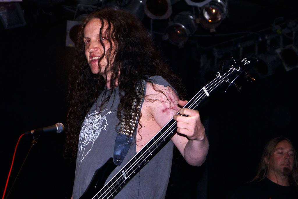 Apollyon from Aura Noir at the Wizards live in Bitterfeld, Germany